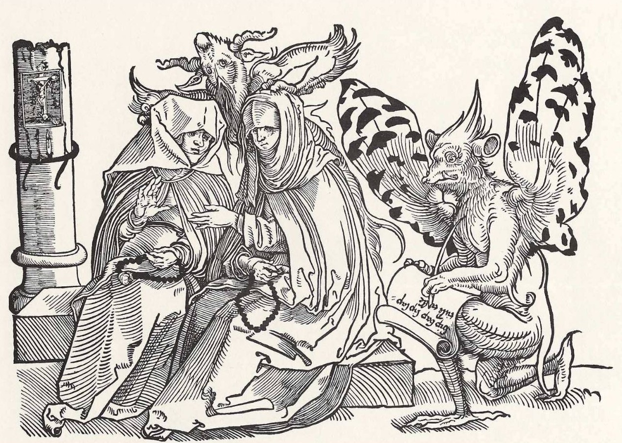 Gossip sisters and the devil